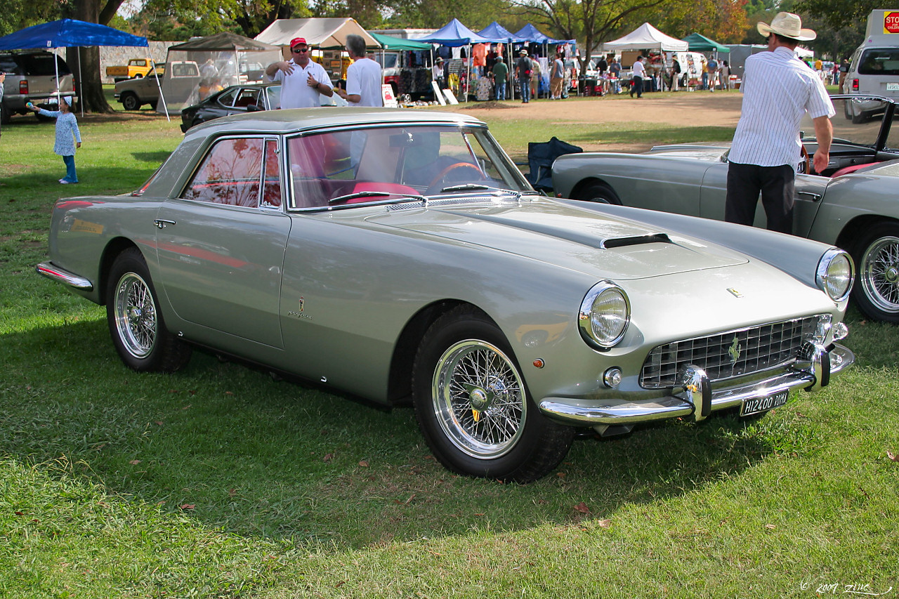 1959 Ferrari 250GT Coupé by Pinin Farina - fvr-1